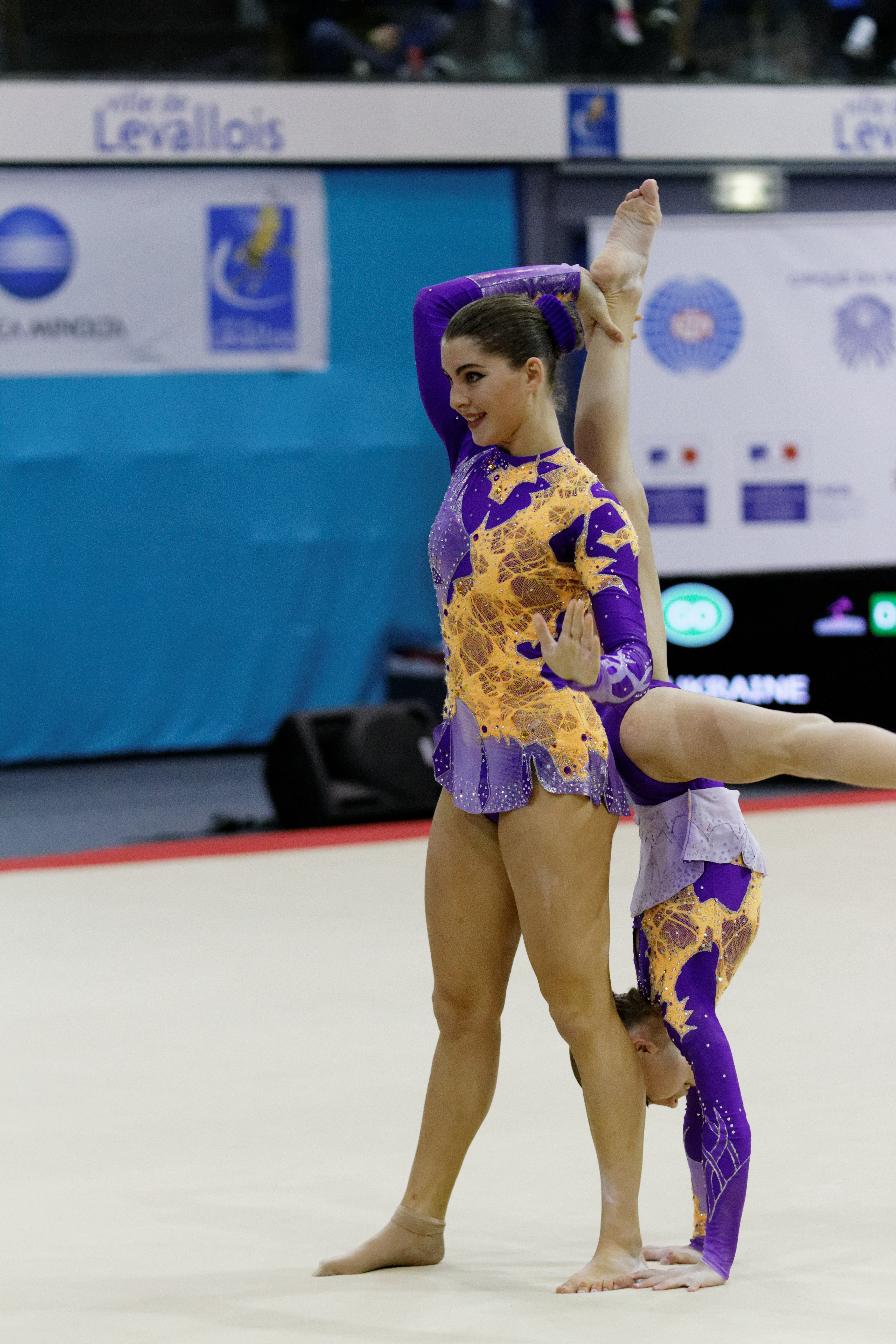 2014 Acrobatic Gymnastics World Championships, 10th-12 July, Levallois-Perret, France. Finals : women pair. Ukrainia.